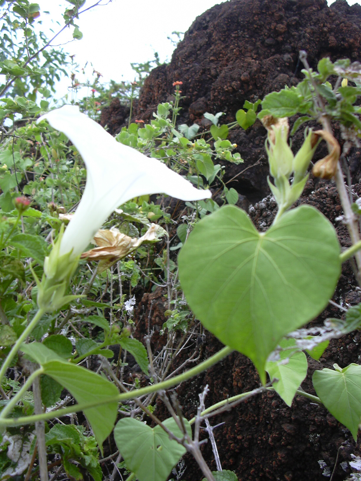 Ipomoea indica (flower). Location: Maui, Puu o Kali